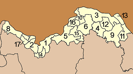 Map of Nong Khai province, Thailand, with the districts (Amphoe) numbered. Mueang Nong Khai (อำเภอเมืองหนองคาย) Tha Bo (อำเภอท่าบ่อ) Bueng Kan (อำเภอบึงกาฬ) Phon Charoen (อำเภอพรเจริญ) Phon Phisai (อำเภอโพนพิสัย) So Phisai (อำเภอโซ่พิสัย) Si Chiang Mai (อำเภอศรีเชียงใหม่) Sangkhom (อำเภอสังคม) Seka (อำเภอเซกา) Pak Khat (อำเภอปากคาด) Bueng Khong Long (อำเภอบึงโขงหลง) Si Wilai (อำเภอศรีวิไล) Bung Khla (อำเภอบุ่งคล้า) Sakhrai (sub-district) (กิ่งอำเภอสระใคร) Fao Rai (sub-district) (กิ่งอำเภอเฝ้าไร่) Rattanawapi (sub-district) (กิ่งอำเภอรัตนวาปี) Pho Tak (sub-district) (กิ่งอำเภอโพธิ์ตาก)